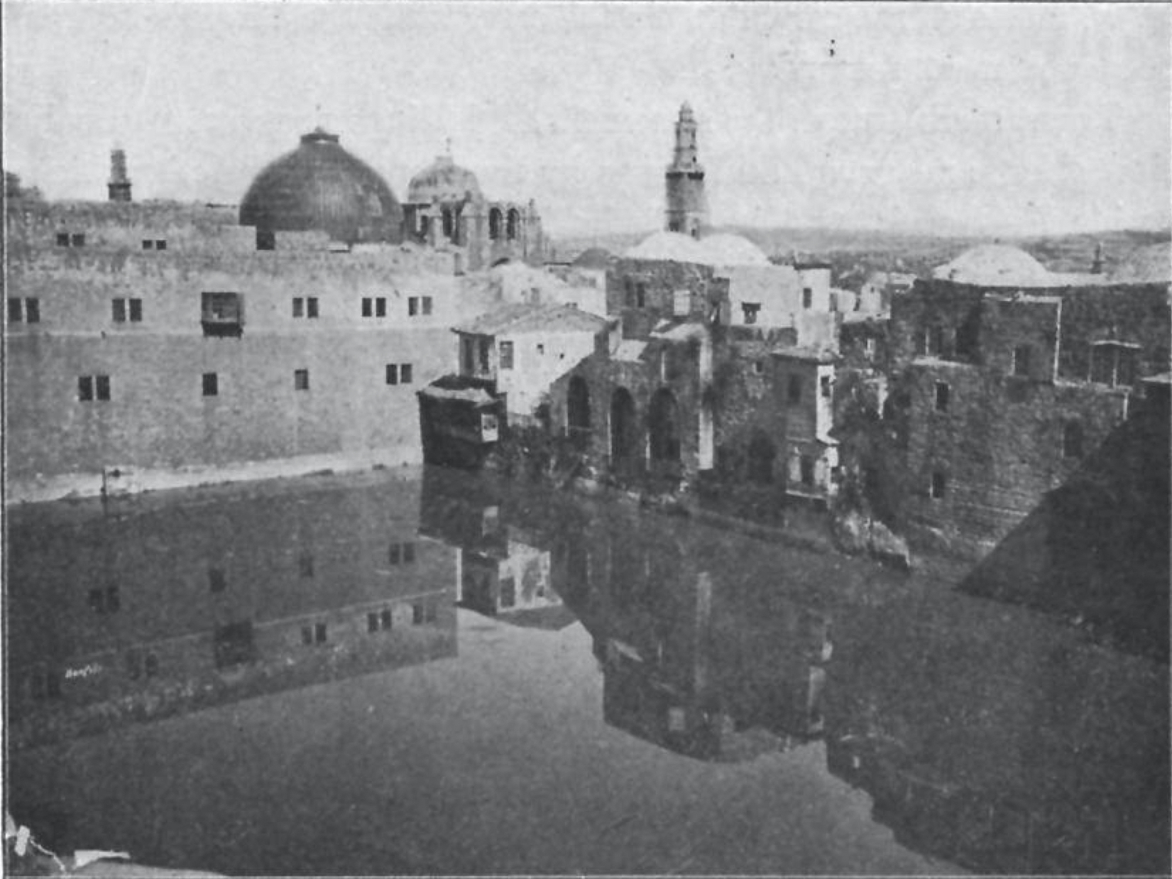 Patriarch's Pool